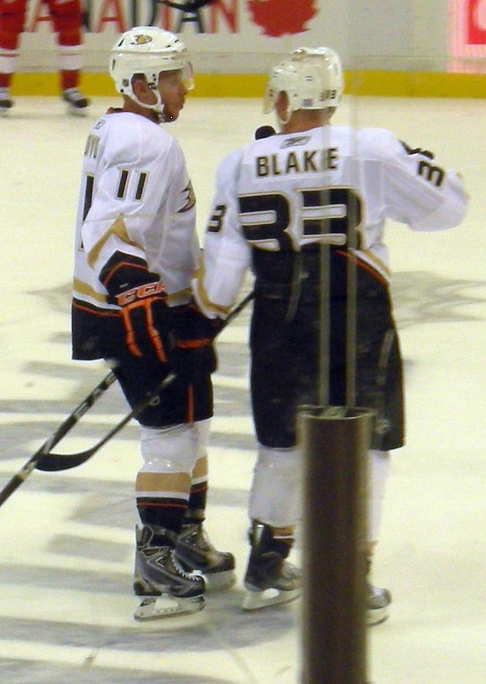 Saku Koivu and Jason Blake during the Anaheim Ducks vs. Detroit Red Wings ice hockey game at Joe Louis Arena in Detroit, Michigan (United States). Detroit won 4–0.